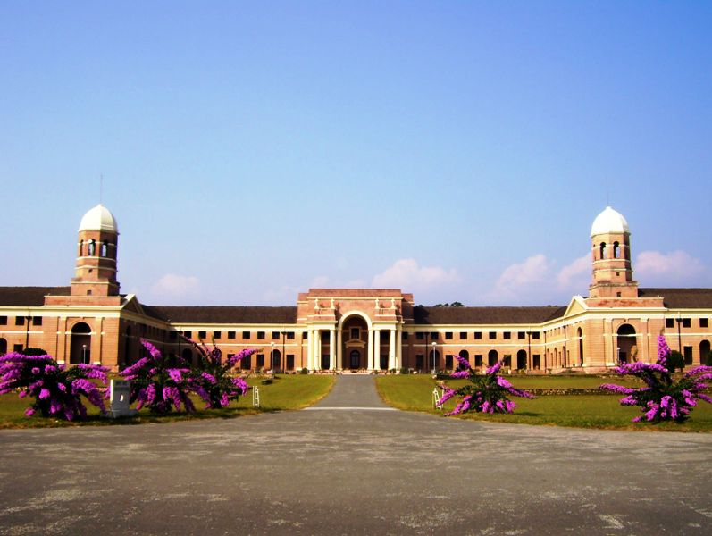 This shot captured by me gives the Main Front View of the FRI building.